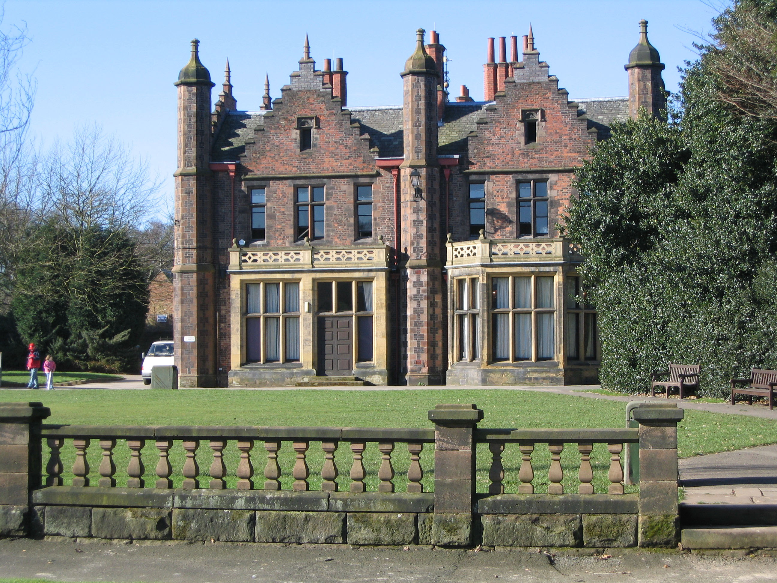 Photograph